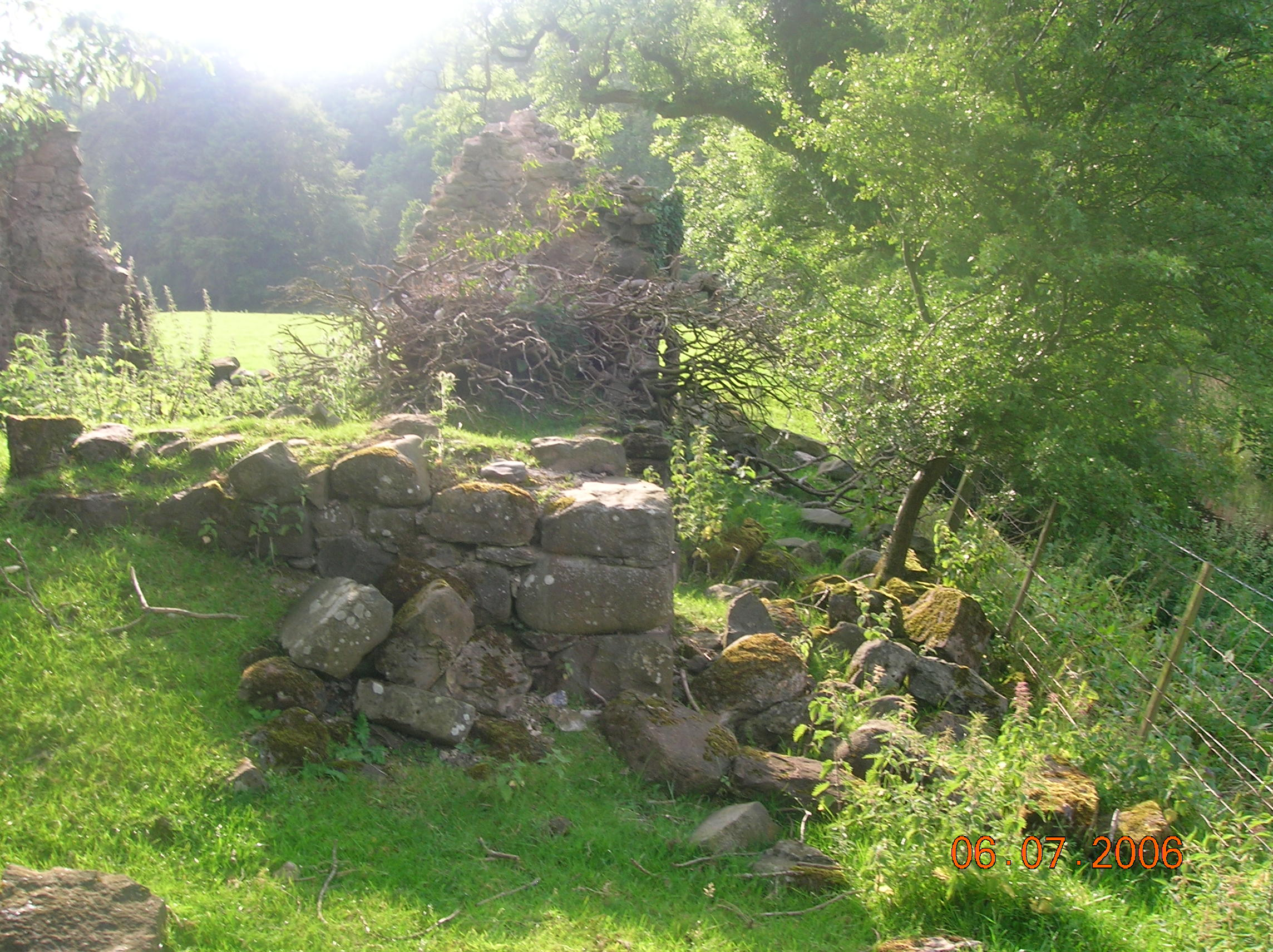 The 'cottage orne' at Cunninghamhead in North Ayrshire showing the river boulders used in its construction.